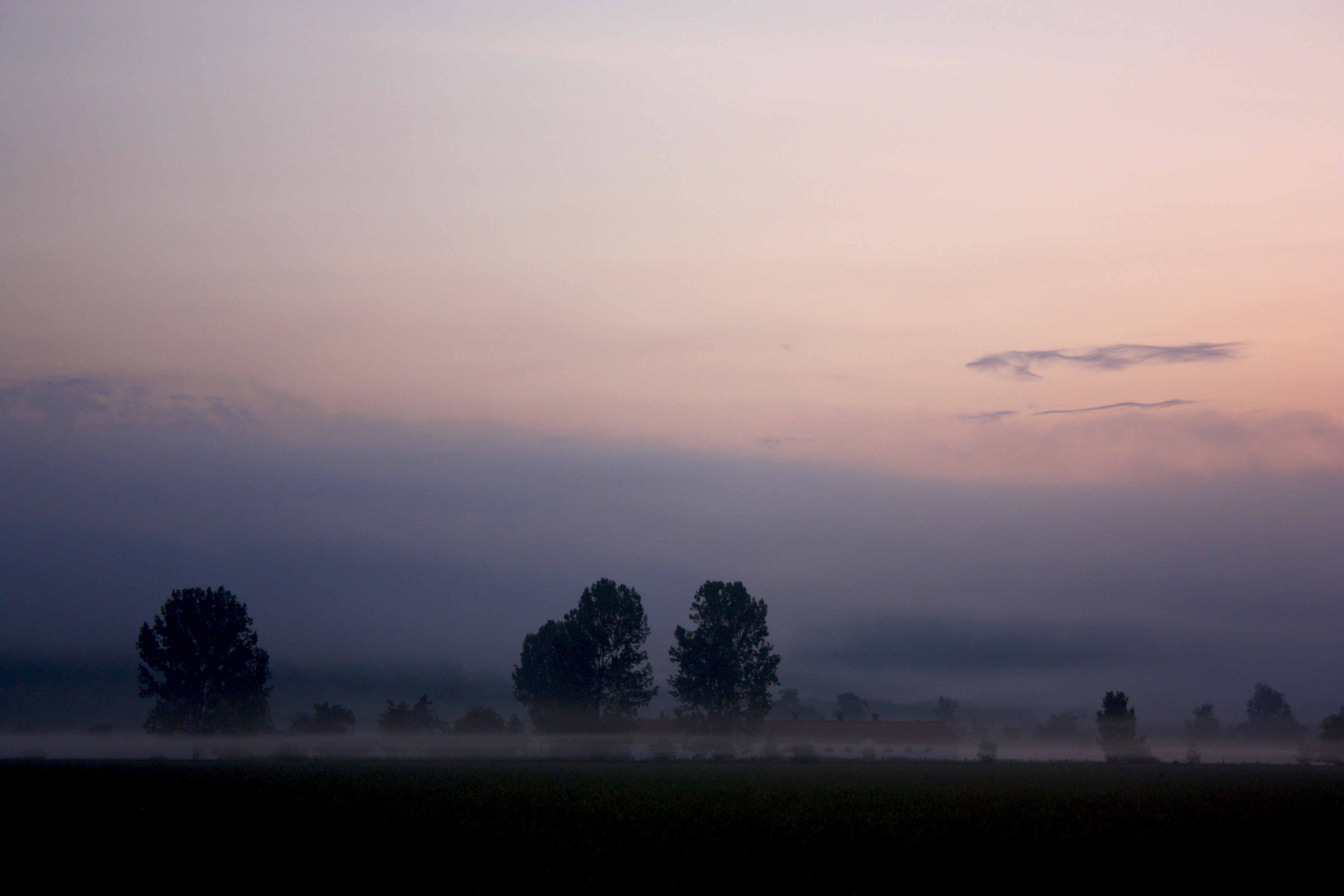 Pătârlagele, Romania